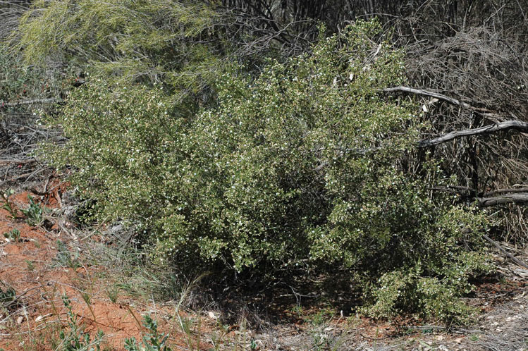 Philotheca difformis sybsp. difformis showing habit, in the Stackpole State Forest, north-east of Goolgowi, New South Wales